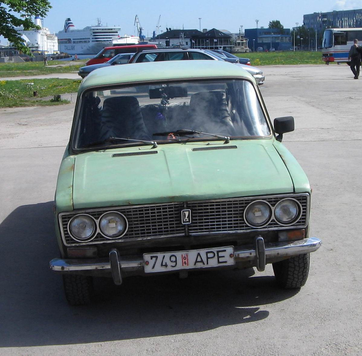 A VAZ-2106 “Zhiguli”, also known as Lada 1500. Photo taken in Tallinn, Estonia. In the background one can see Tallink's MS Victoria.